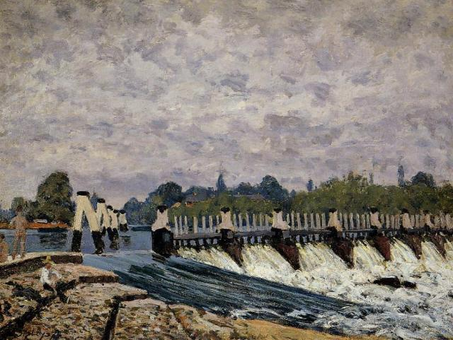 Alfred Sisley - Molesey Weir - Morning